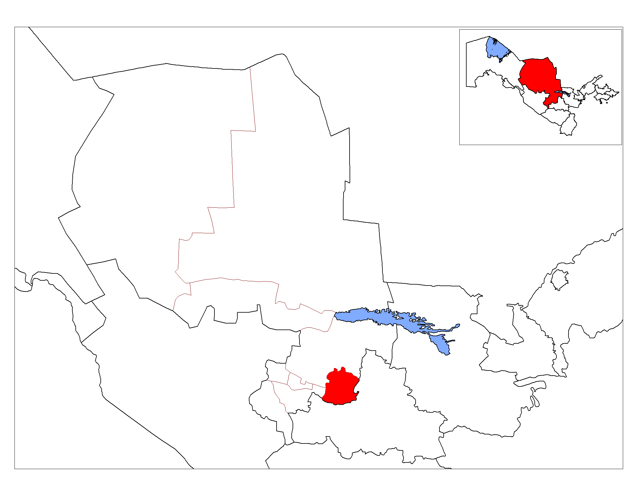 Location map of Xatirchi District in Navoiy Province, Uzbekistan